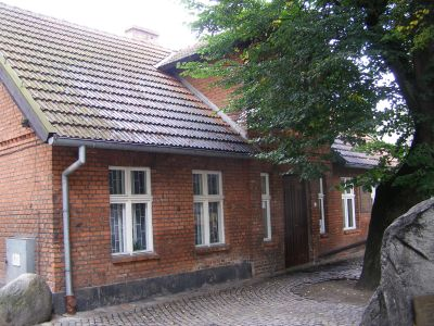 The former Antoni Ambraham's house (part of the City Museum in Gdynia, Poland)